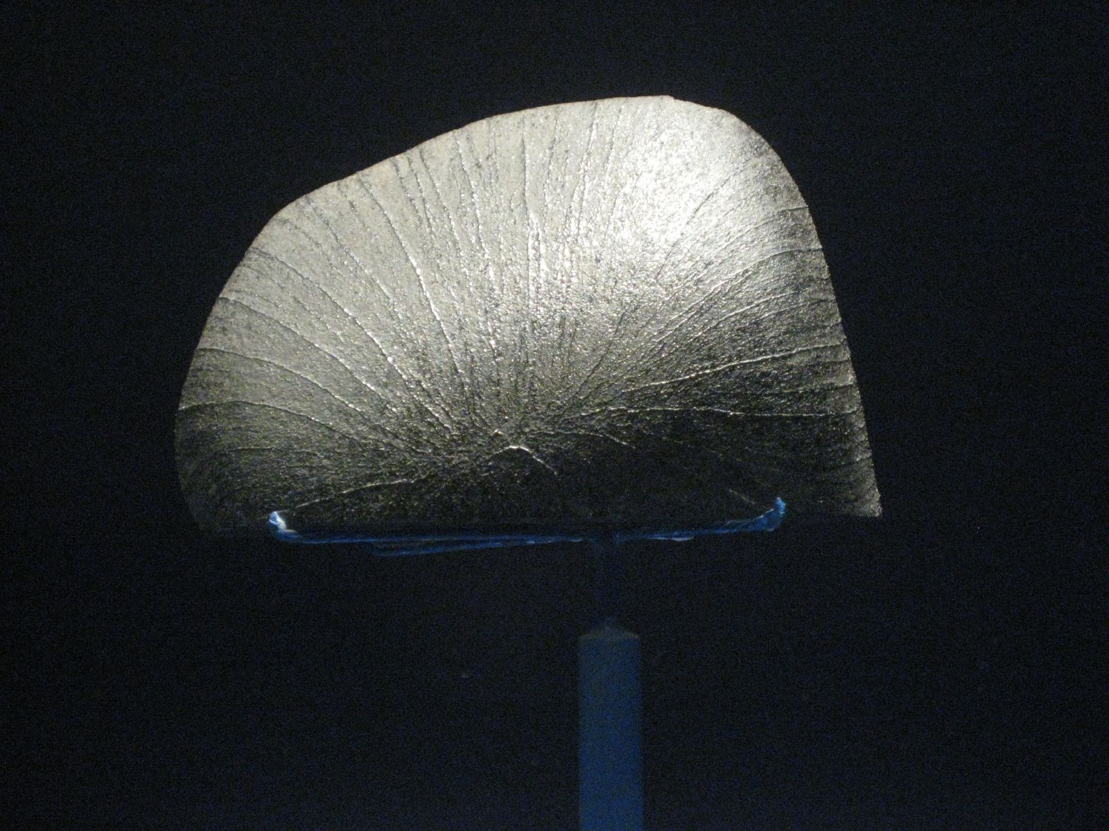 Lafayette (stone) meteorite. Martian Calcium-rich Pyroxenite. Found in 1931, Indiana.